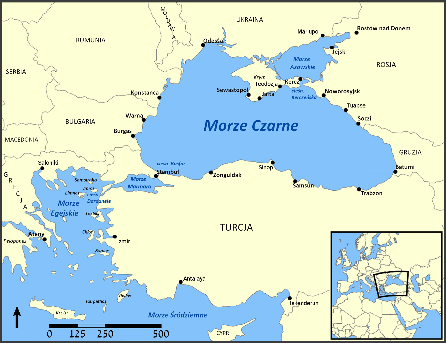 A map showing the location of the Black Sea and some of the large or prominent ports around it. The Sea of Azov and Sea of Marmara are also labelled.